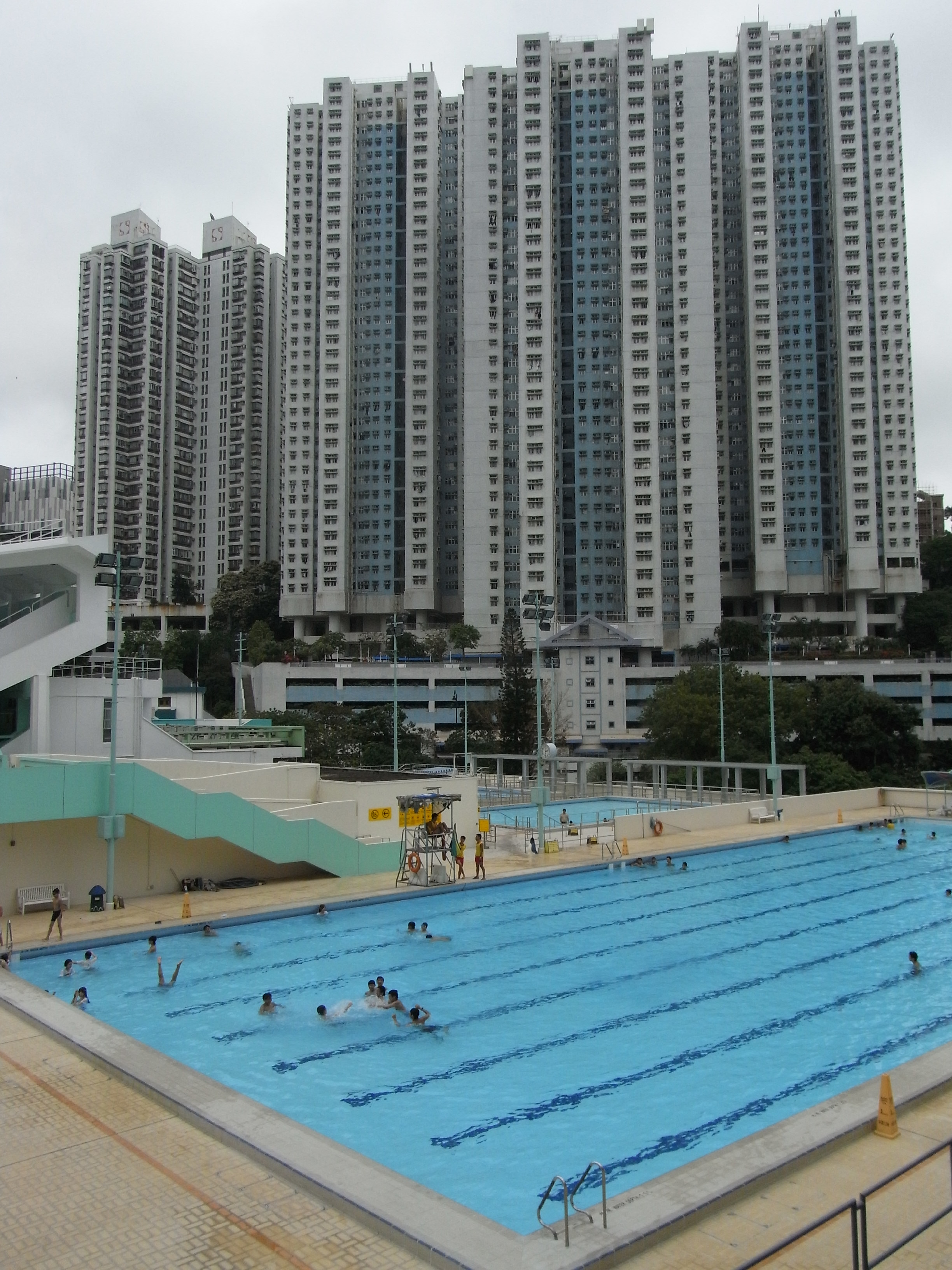 香港島 包玉剛游泳池, Pao Yue Kong Swimming Pool, Wong Chuk Hang, Hong Kong